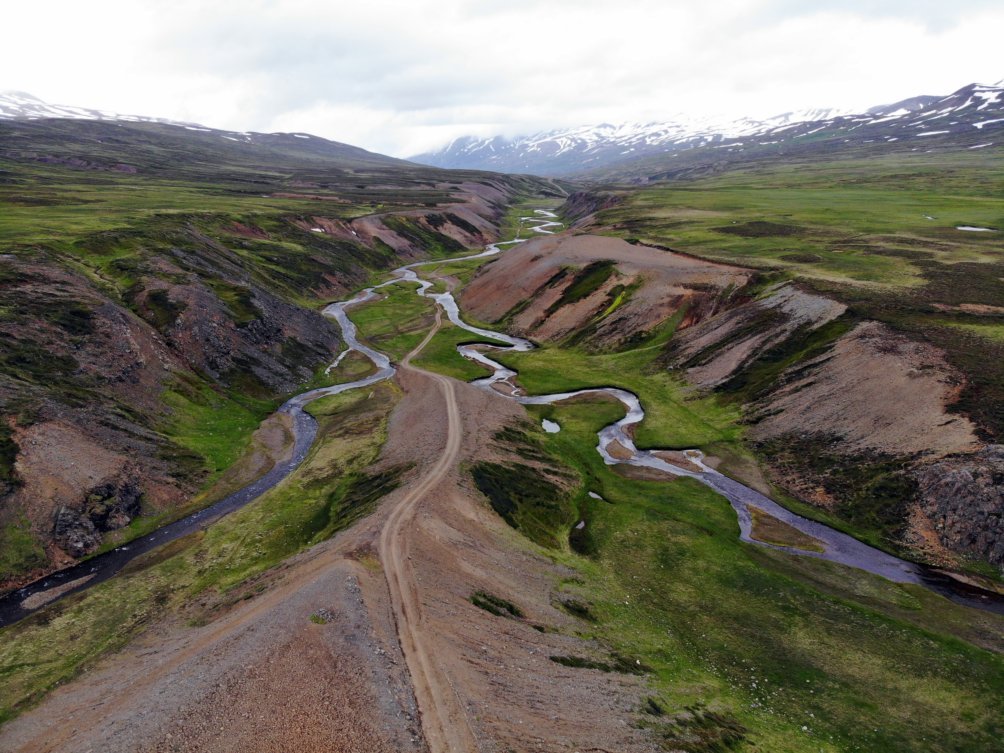 Flateyjardalsheiði Iceland summer 2019